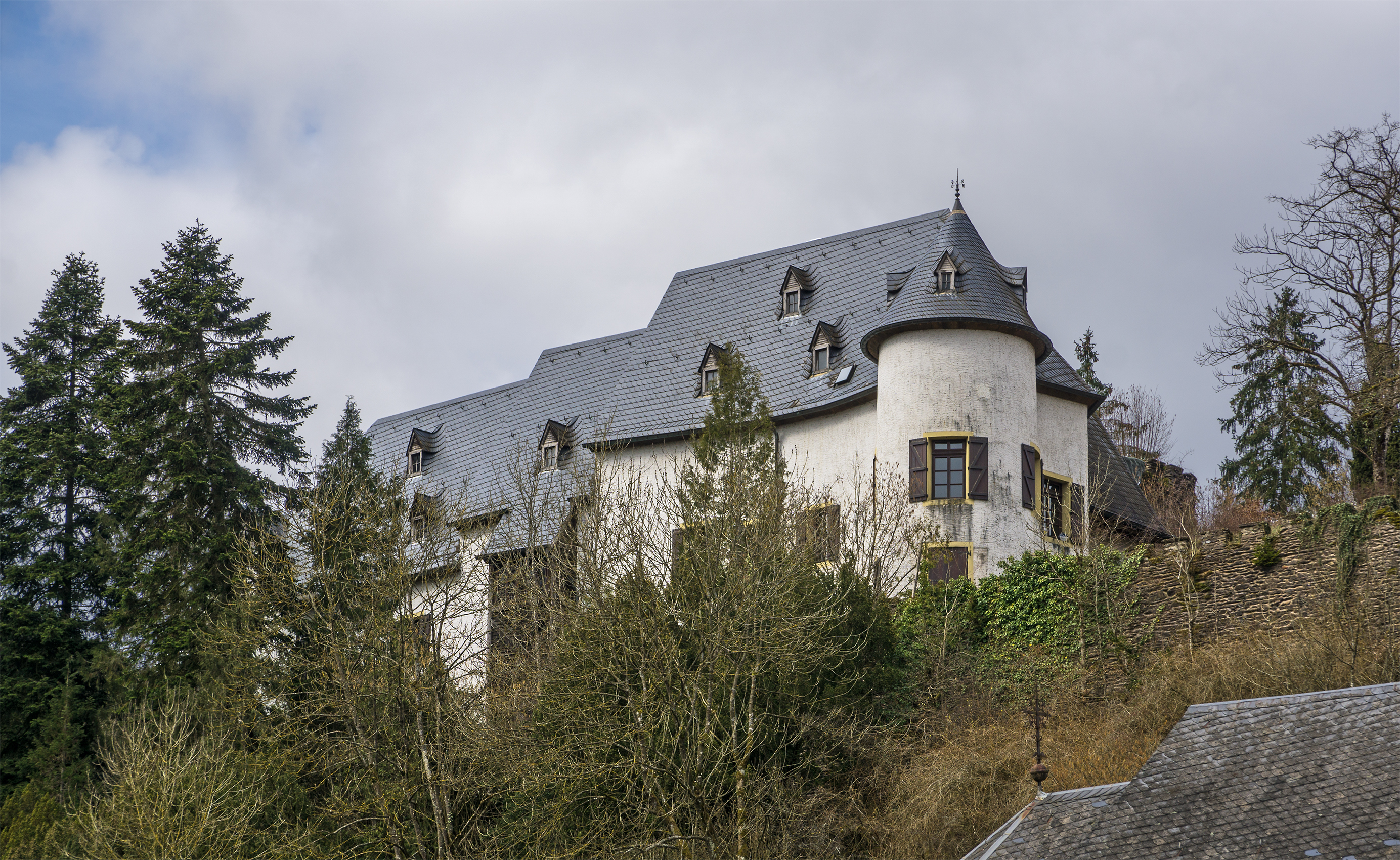 Stolzembourg castle